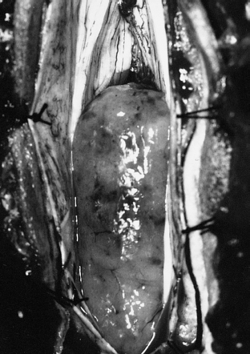 Myxopapillary ependymomas are soft, gray, discrete masses which almost always arise from the filum terminale. (Courtesy of Dr. E. Michael Scott, Boston, MA.)